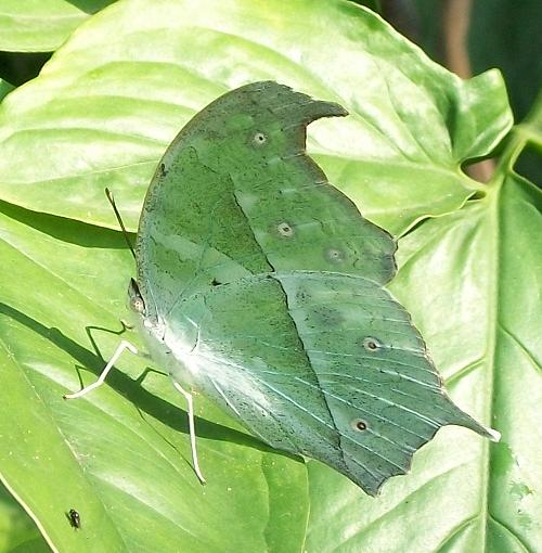 Protogoniomorpha parhassus aethiops at Umdoni Bird Sanctuary, South Africa. Same individual as this - File:Common_Mother-of-pearl_Umdoni_14_06_2010_1.JPG